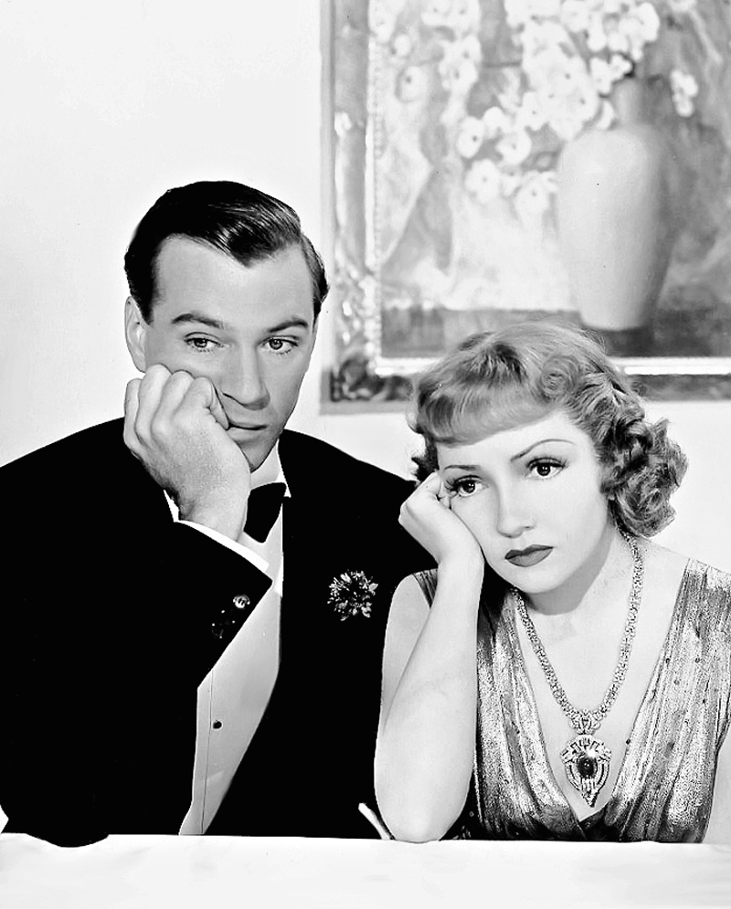 Publicity photo of Gary Cooper and Claudette Colbert for the film Bluebeard's Eighth Wife